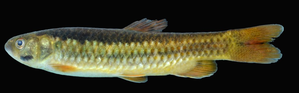 Lebiasina sp. from Guyana. GUY14-27